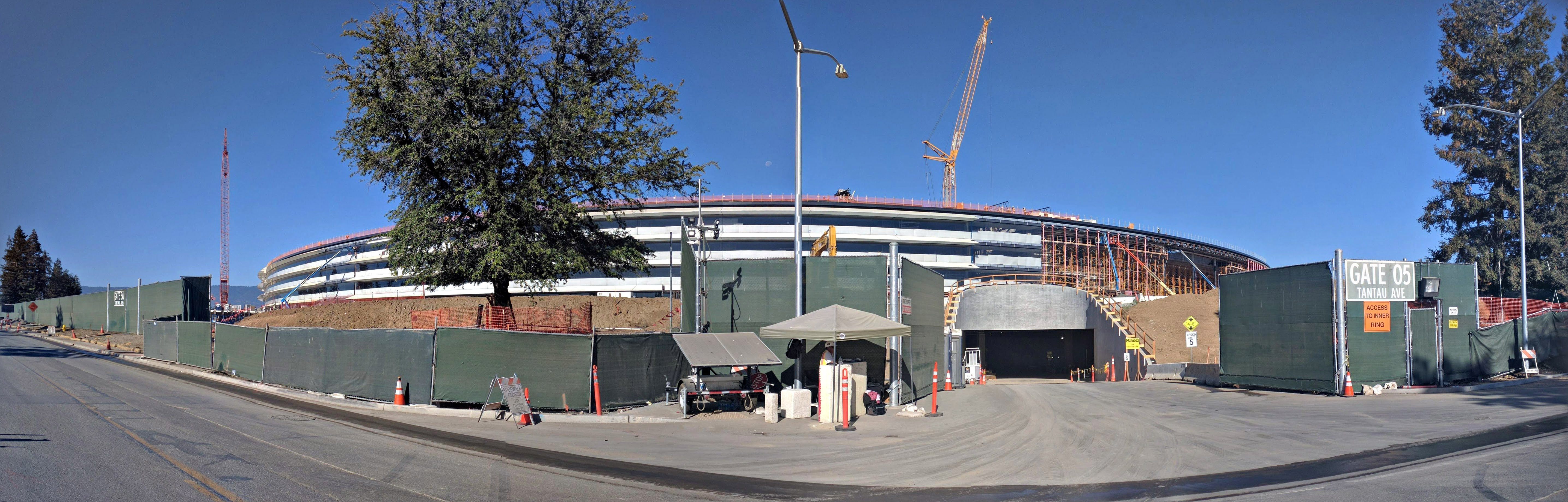 Apple's new "spaceship" campus under construction, from Tantau Rd. in Cupertino, July 2016.